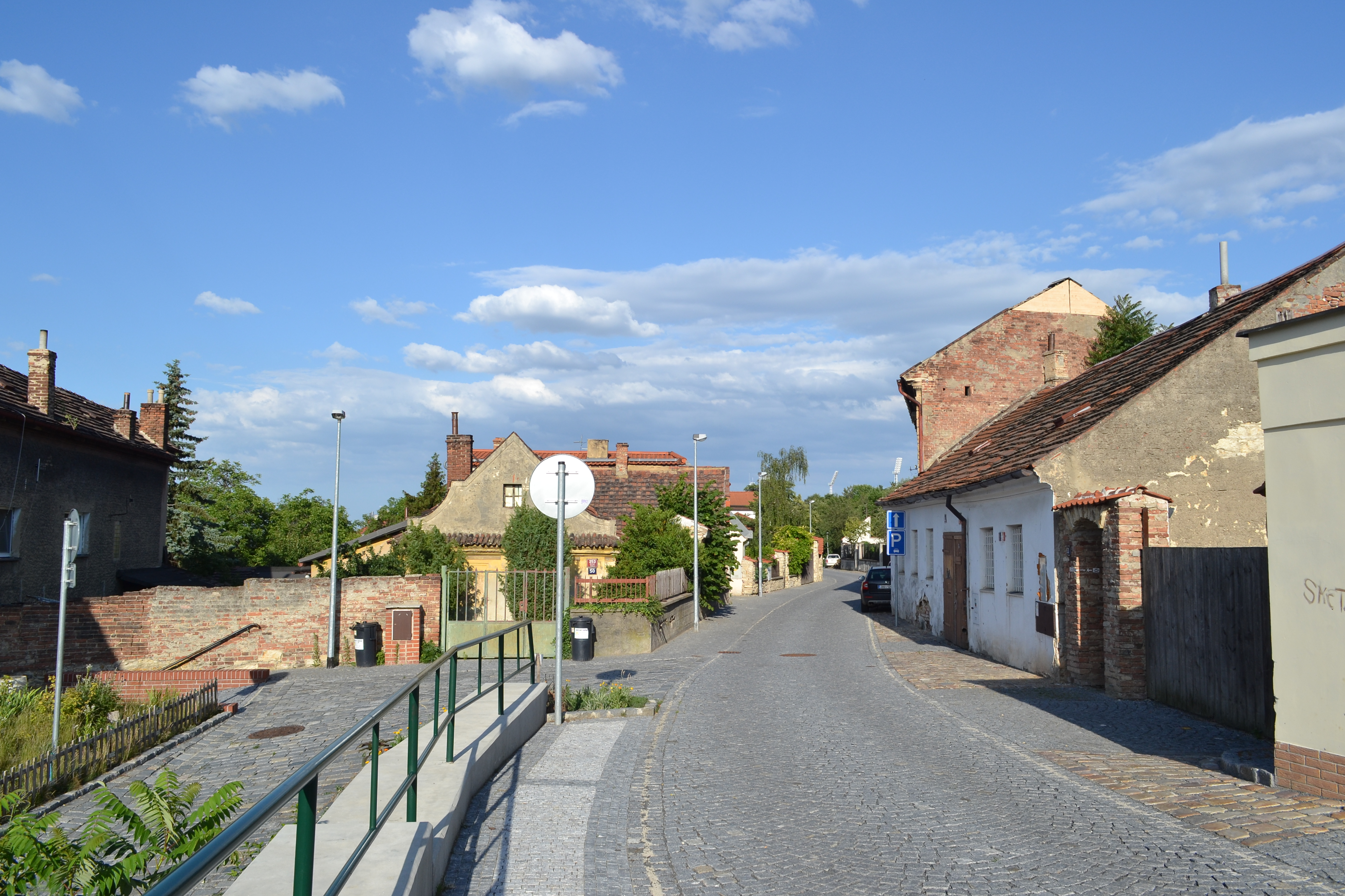 Street "Za Strahovem" in an area called "Tejnka" in Břevnov, Prague, Czech Republic.